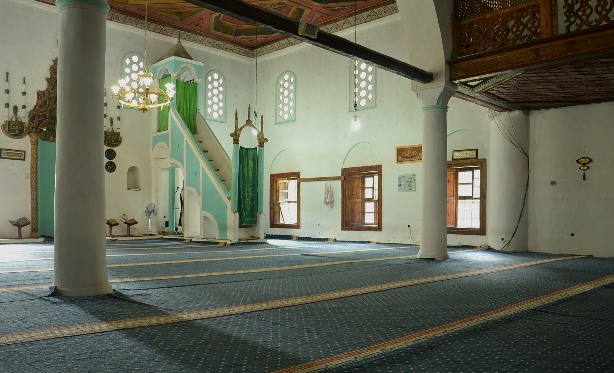 King Mosque, Berat, Albania